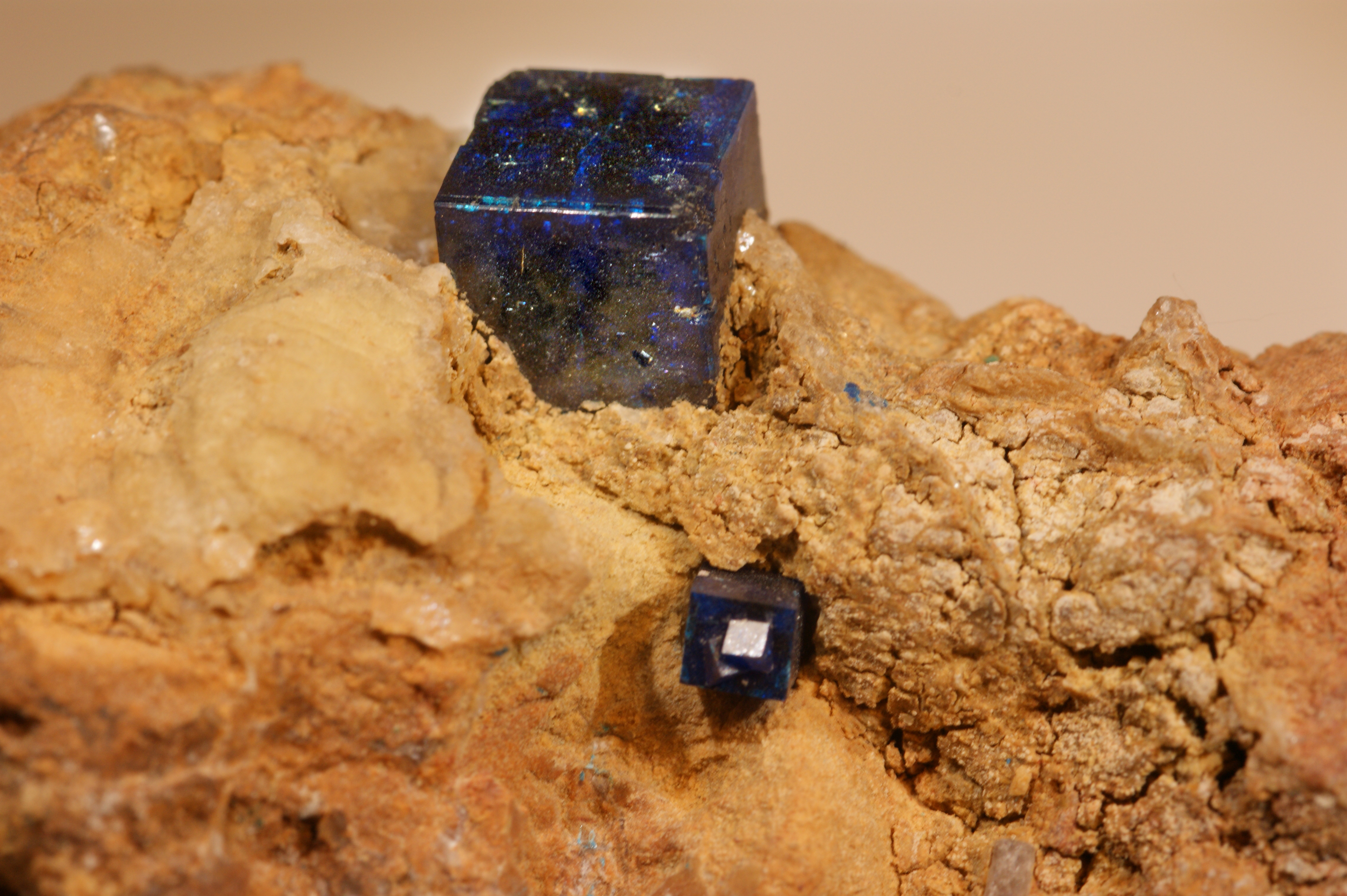 Boleite Locality: Amelia Mine, Santa Rosalía (El Boleo), Boleo District, Municipio de Mulegé, Baja California Sur, Mexico Size : (XX8mm)